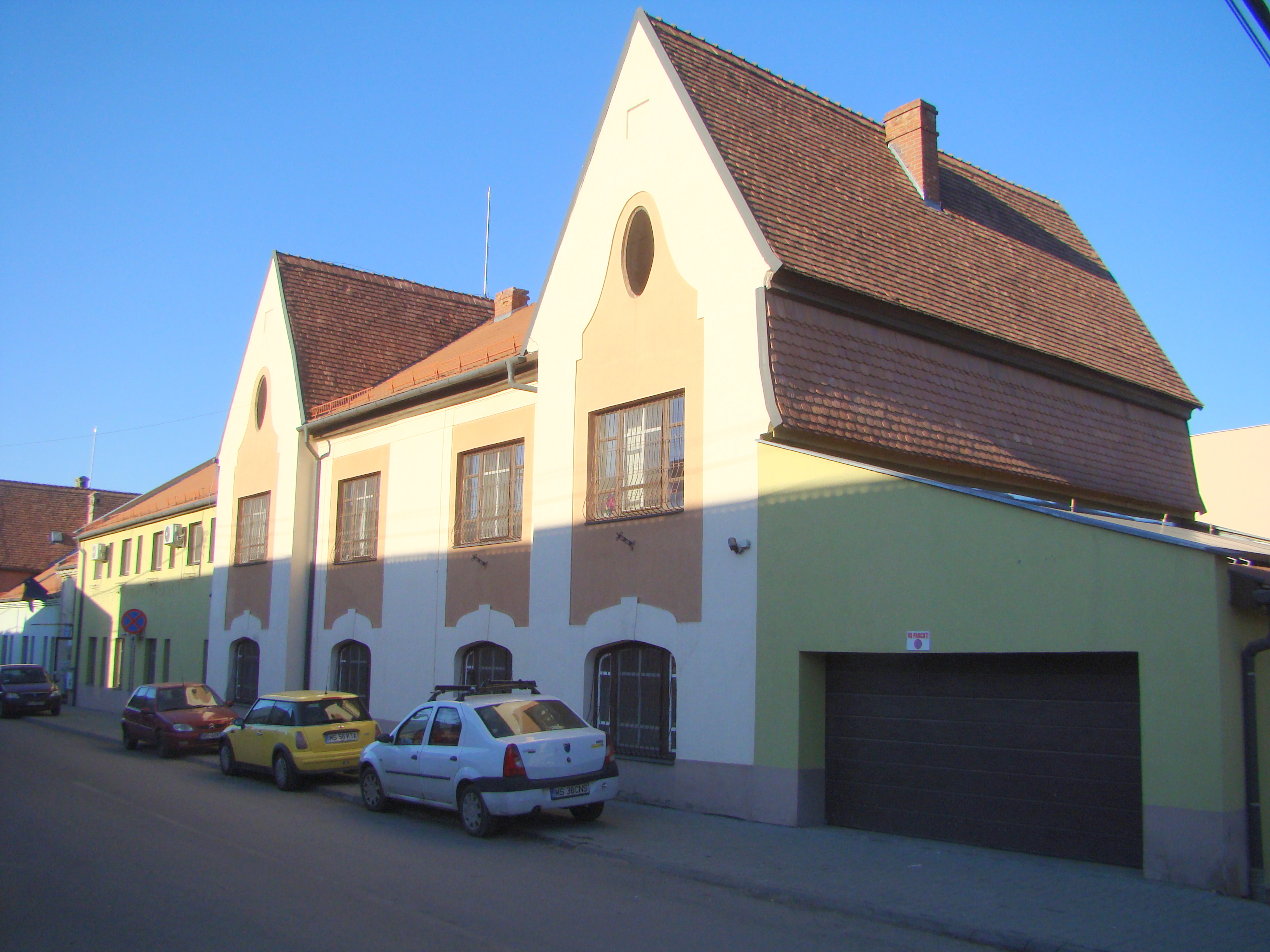 House, historic monument in Târgu Mureș, Evreilor Martiri street, number 29